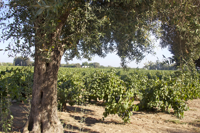 PIcture of a vineyard in Lodi, California. Picture can be found on